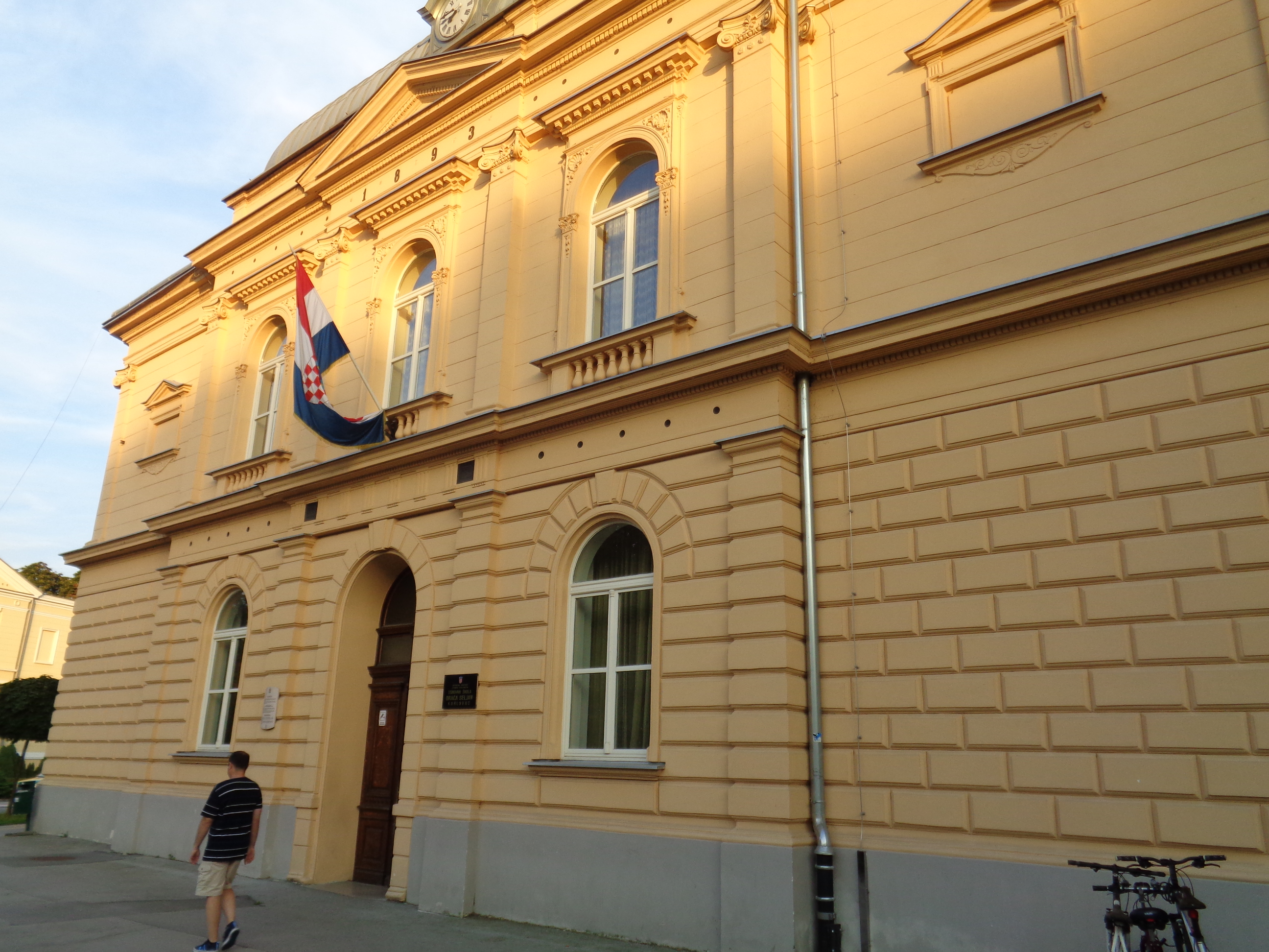 "Brothers Seljan" Primary School in Karlovac, Croatia - facade